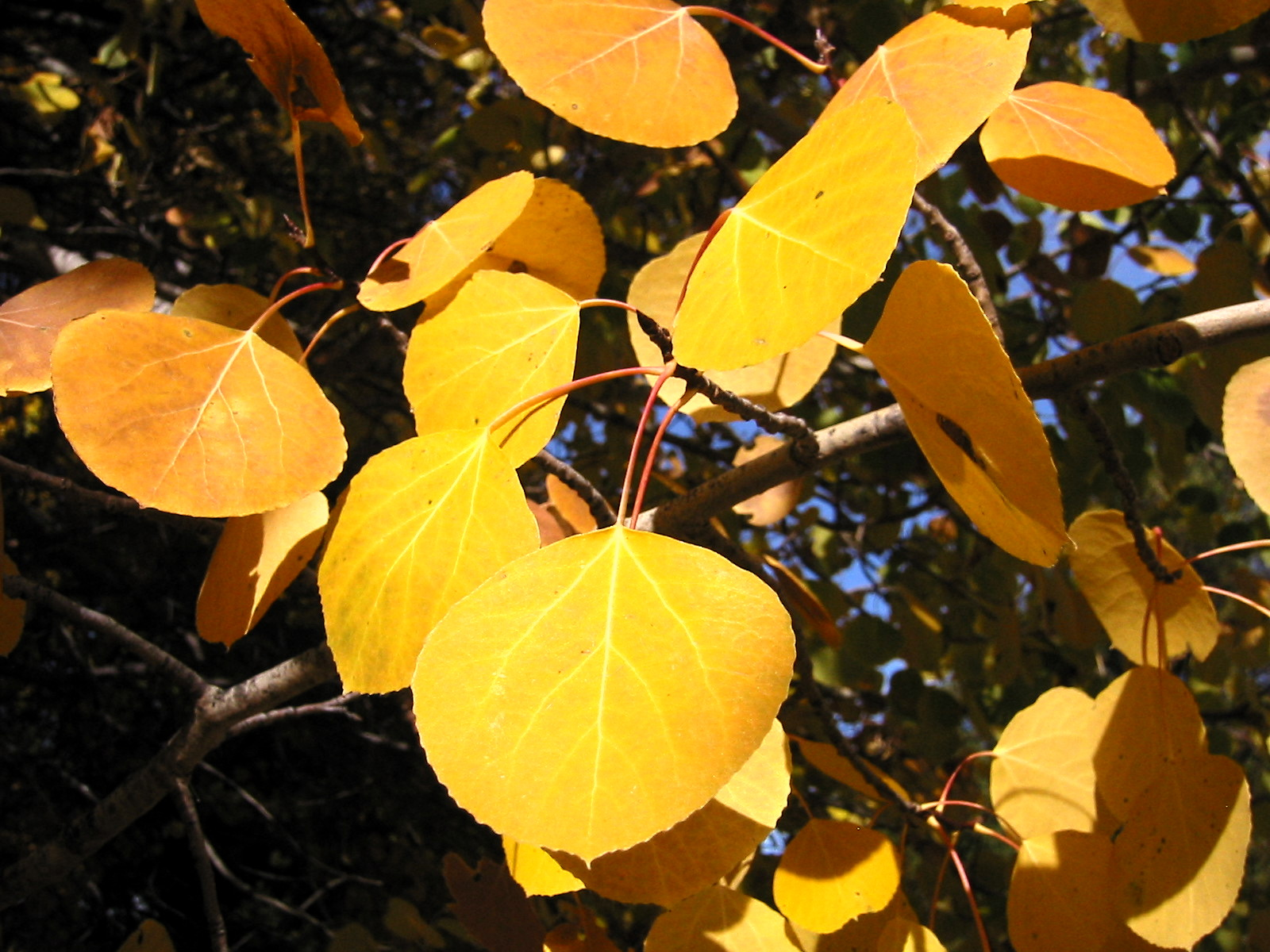 Quaking Aspen, fall foliage